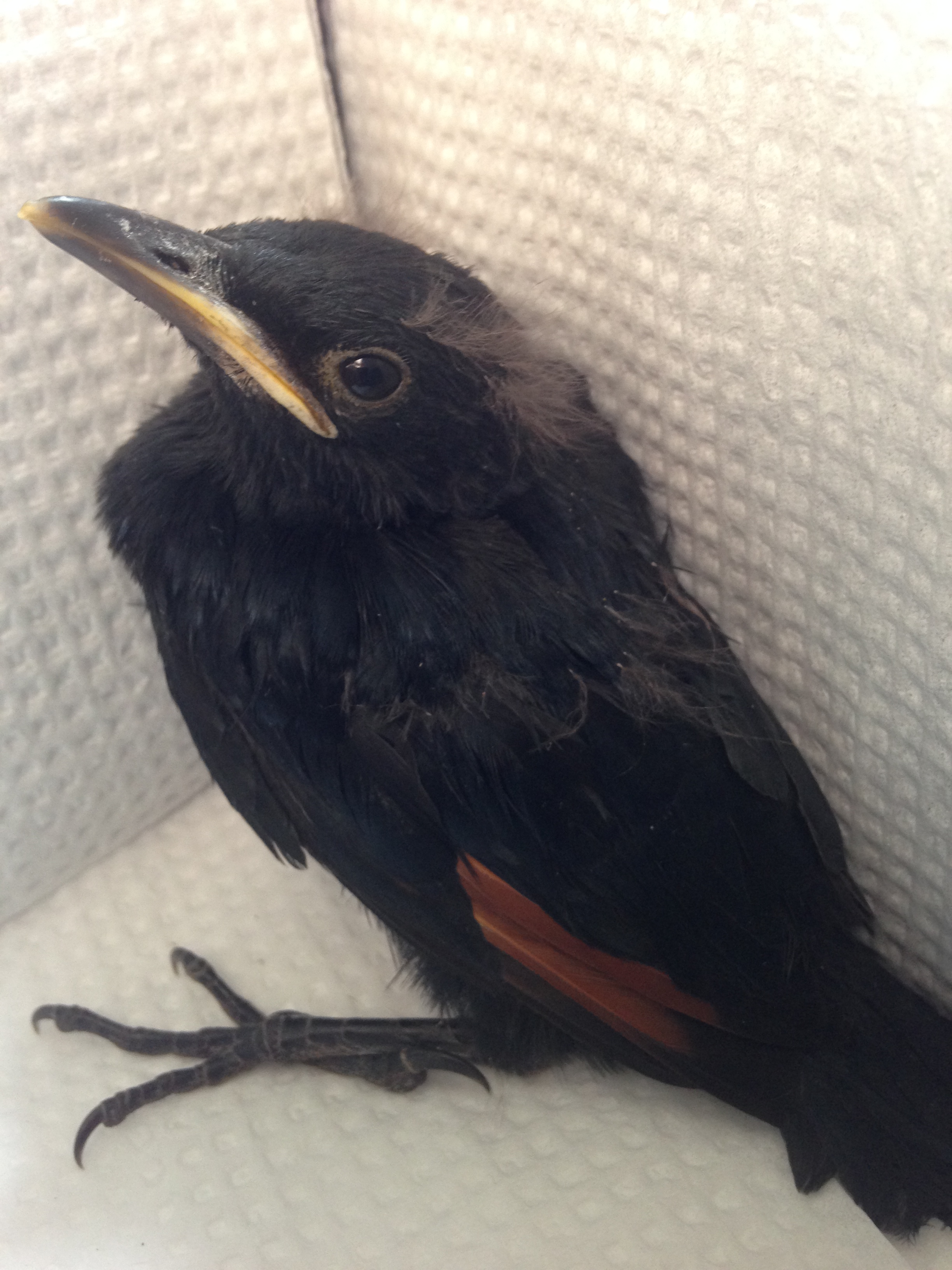 A Red-winged starling chick that is almost old enough to leave the nest.